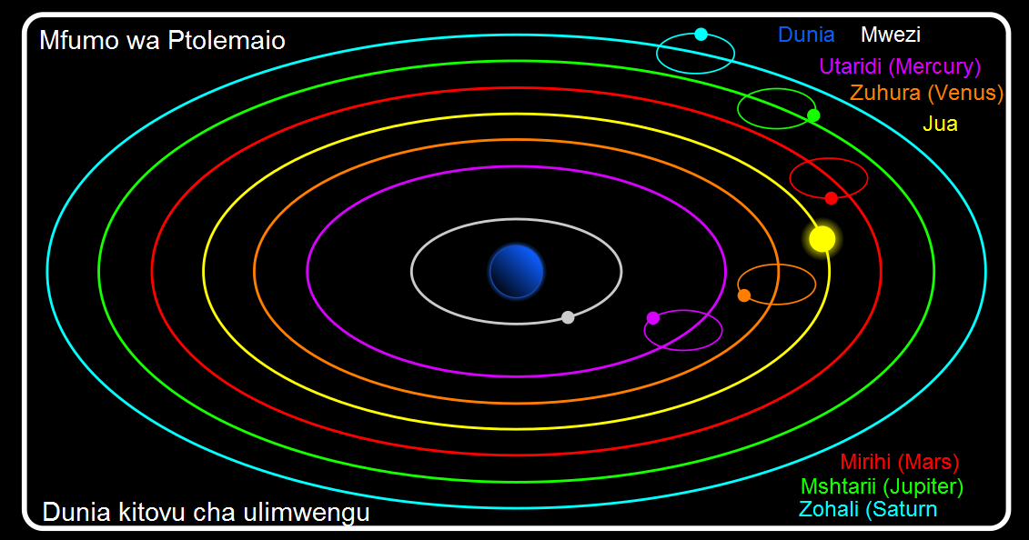 Worldview of Ptolemaeus (geocentric worldview) Kiswahili: Ulimwengu katika mafundisho ya Ptolemaio (Dunia iko kitovu cha ulimwengu)